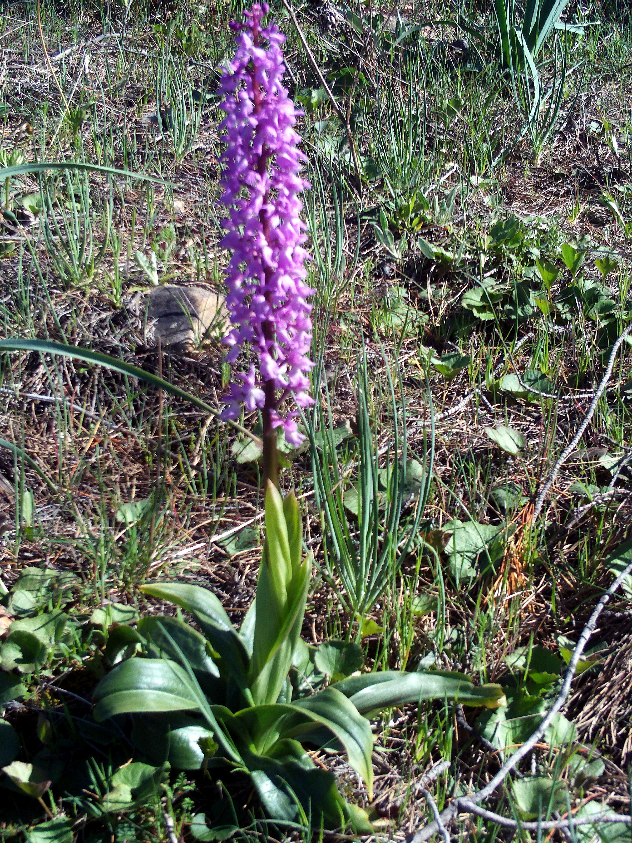 Dactylorhiza elata habit, Dehesa Boyal de Puertollano, Spain